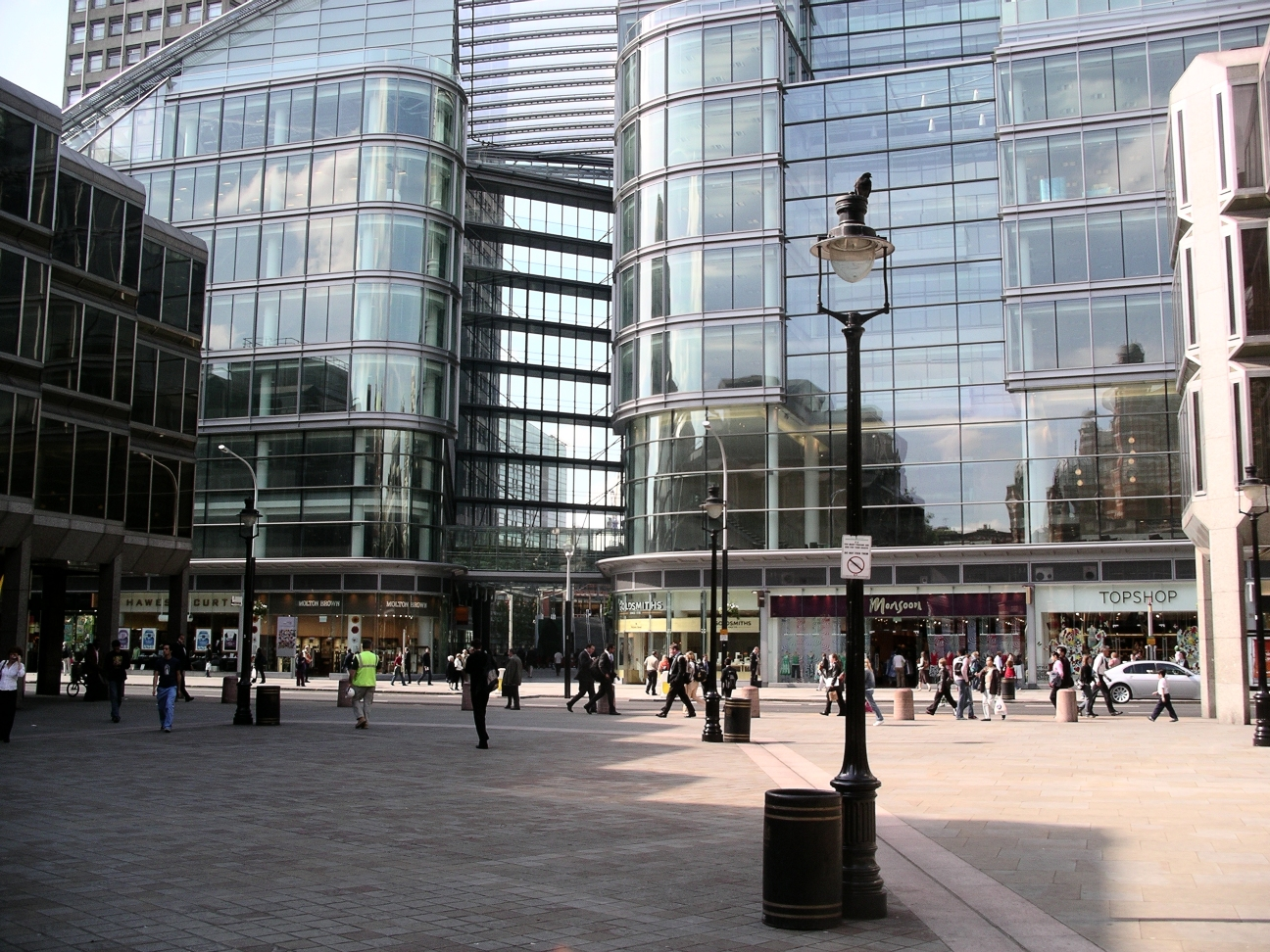 Cardinal Walk development Victoria